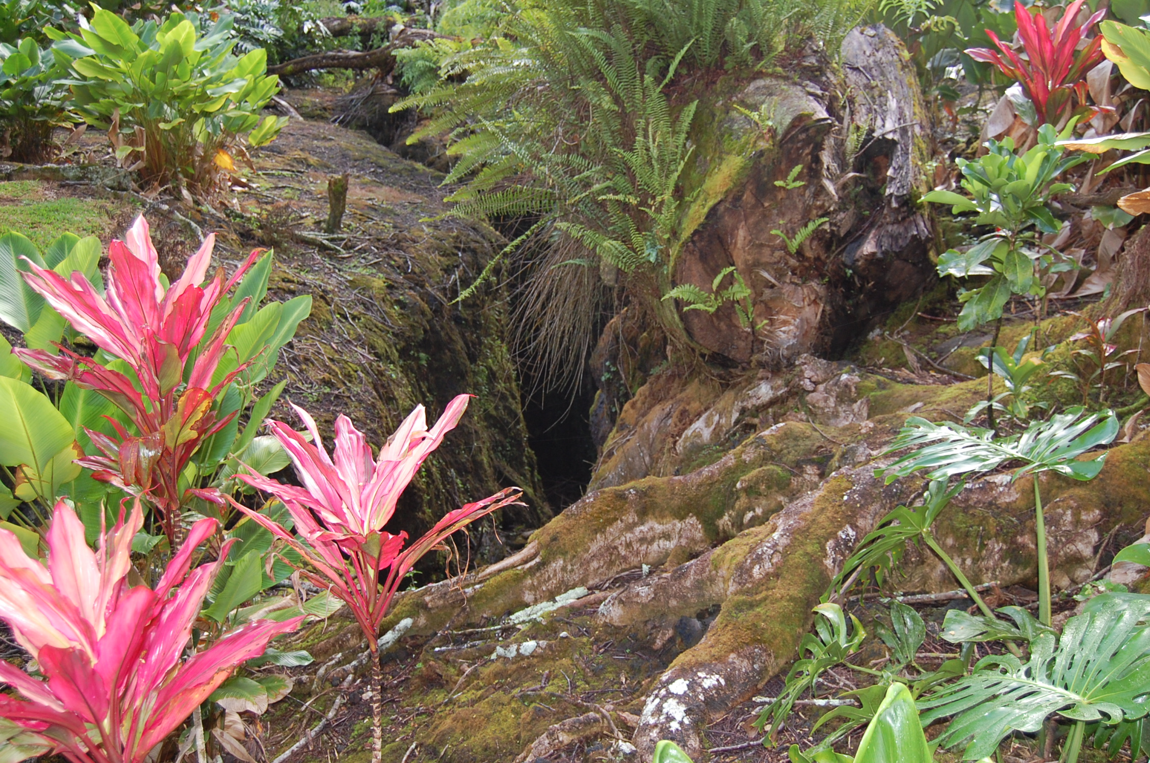 Plant life, with red leaved Cordyline fruticosa, near deep pit at Hawaii Lava Tree State Park.